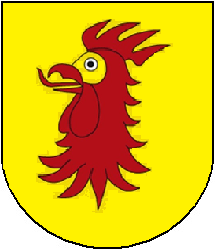 Coat of arms of Les Genevez, Canton of Jura, Switzerland